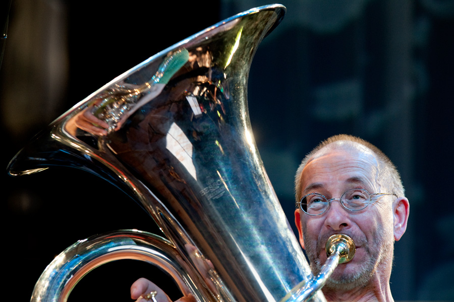 Melvyn Poore, moers festival 2010